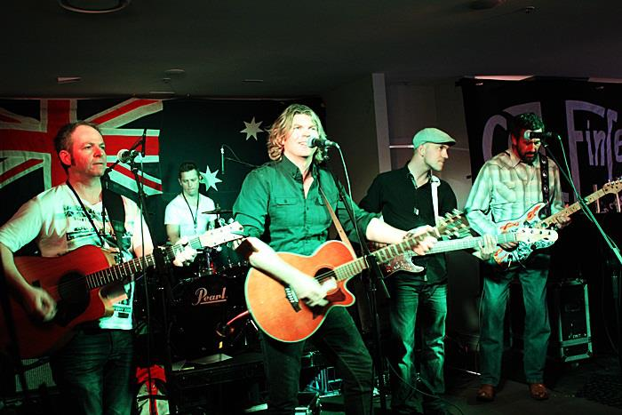 Playing Broadbeach Festival